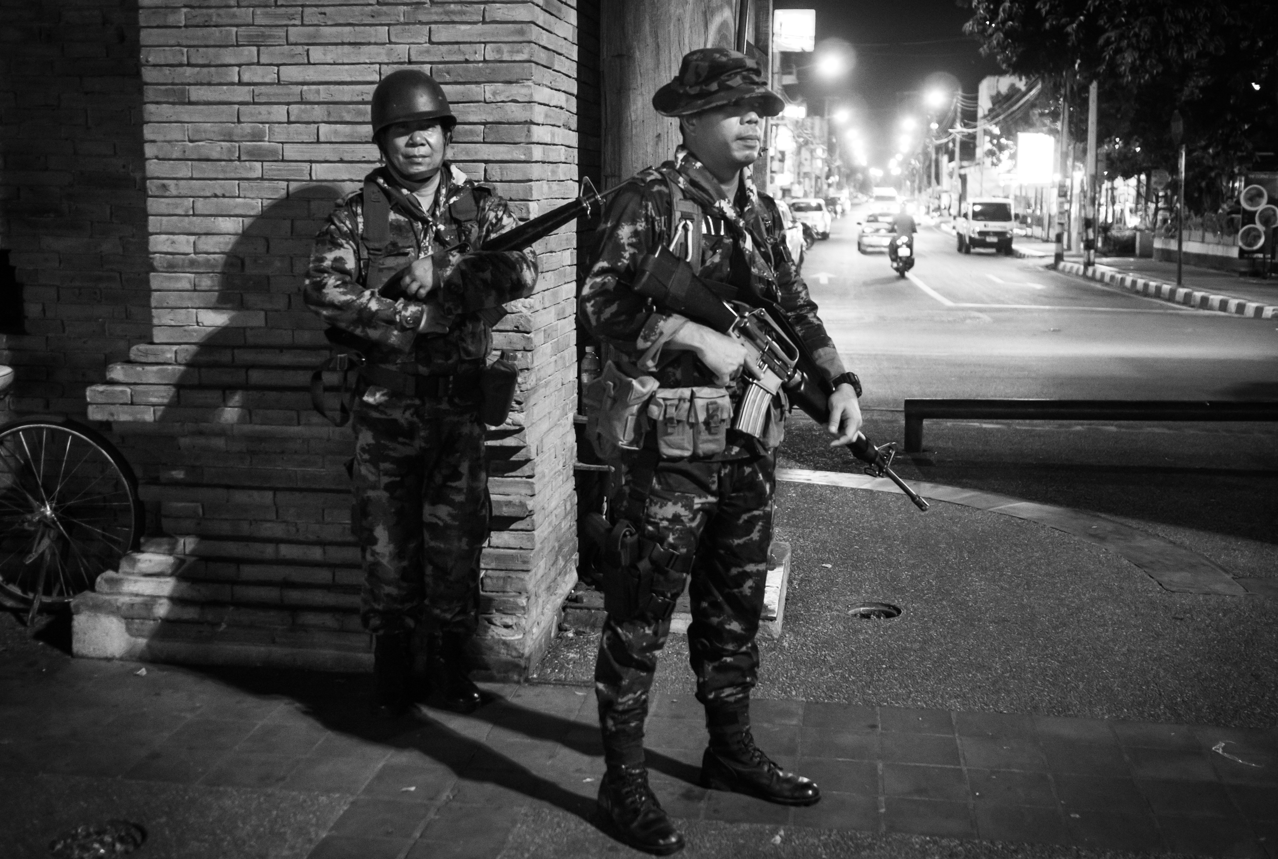 Soldiers keeping watch at Chiang Mai's Thaphae Gate. View in to Rachadamnoen road, the main road inside the old city of Chiang Mai. The photo is taken approximately 30 minutes before the 10PM curfew sets in.